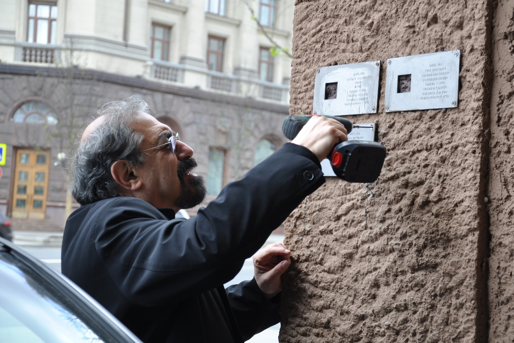 The Last Address Sign is a commemorative plaque that is installed on the last known residential address of victims of the Soviet Union's Communist regime. The memorial sign is a small, 11x19 cm stainless steel plaque that contains information about the repressed person. This information usually contains his or her name, profession, date of birth, date of arrest, date of death, and date of exoneration.